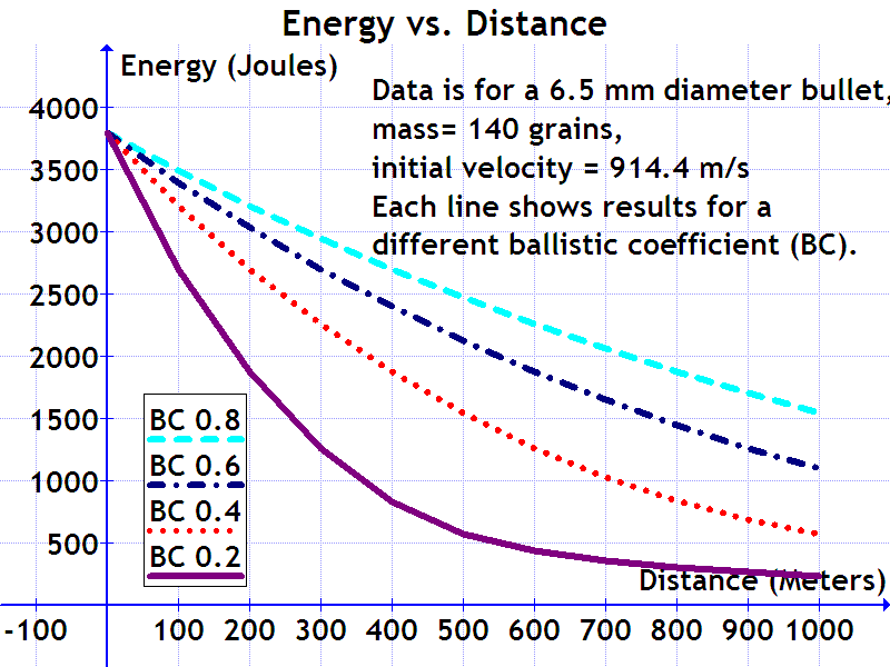 Energy as a function of distance calculated using the JBM ballistics calculator. Data is for a 6.5 mm diameter bullet, mass= 140 grains, initial velocity = 914.4 m/s. Each line shows results for a different ballistic coefficient (BC).